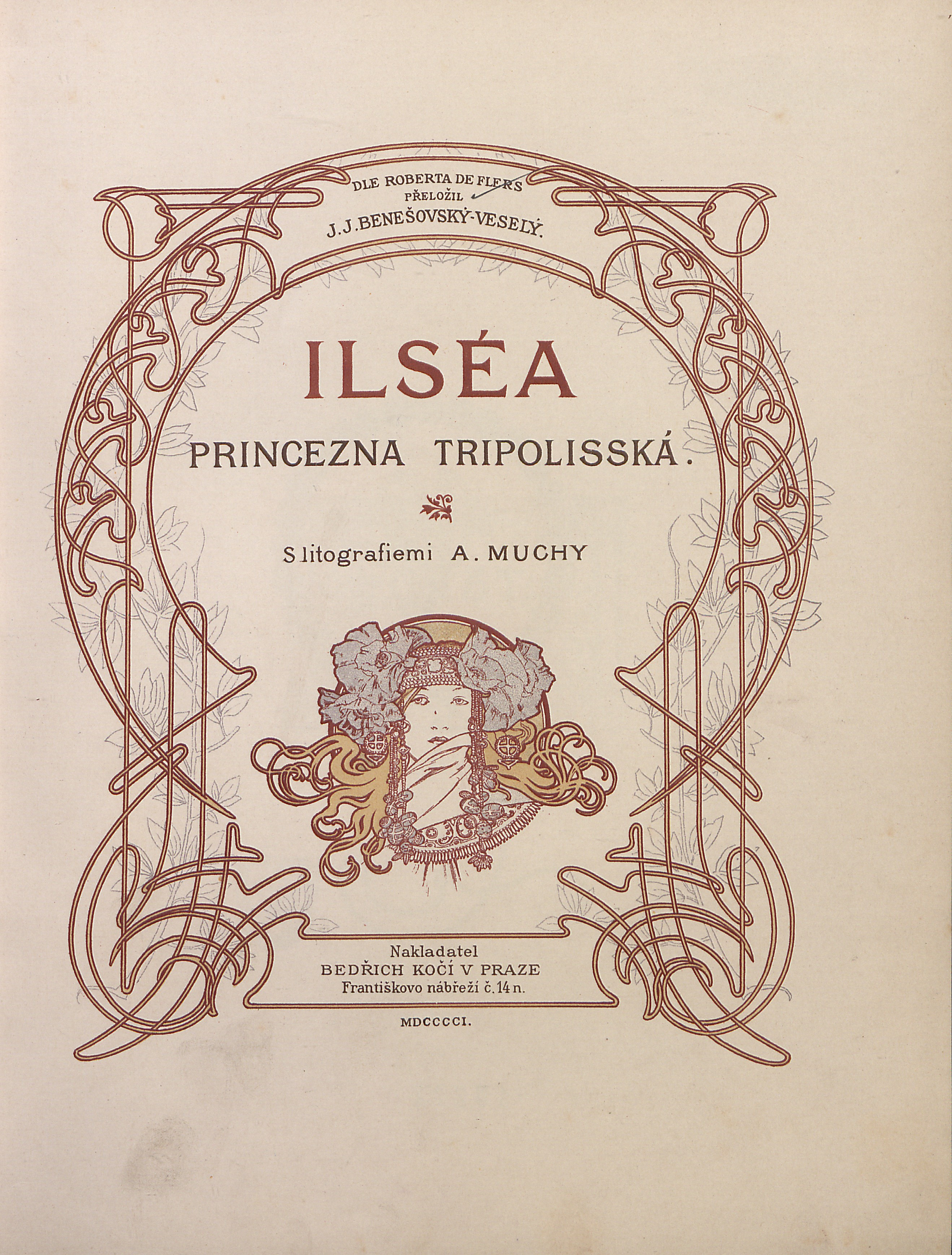 Alphonse Mucha's illustrations for the Robert de Flers book "Ilsée, princesse de Tripoli" published in Czech lanugage in 1901.